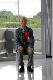 Gyōji Nomiyama, Professor Emeritus of Tokyo University of the Arts, received the Order of Culture on November, 2014.